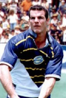 Rugby player Ian Roberts